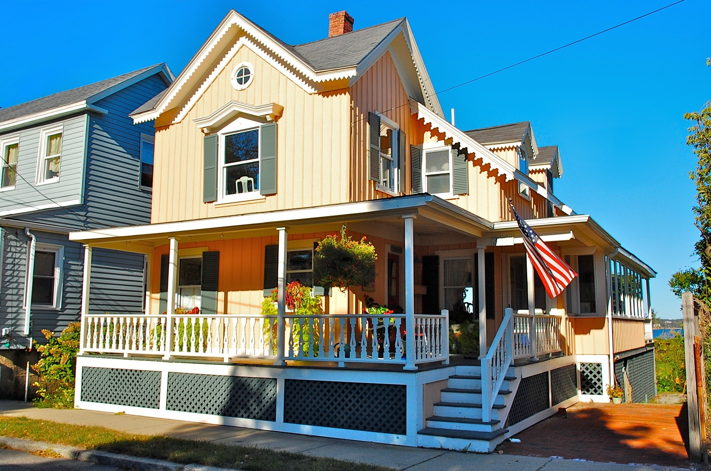 An oceanfront property in the Salem Willows Historic District, on Beach Ave.